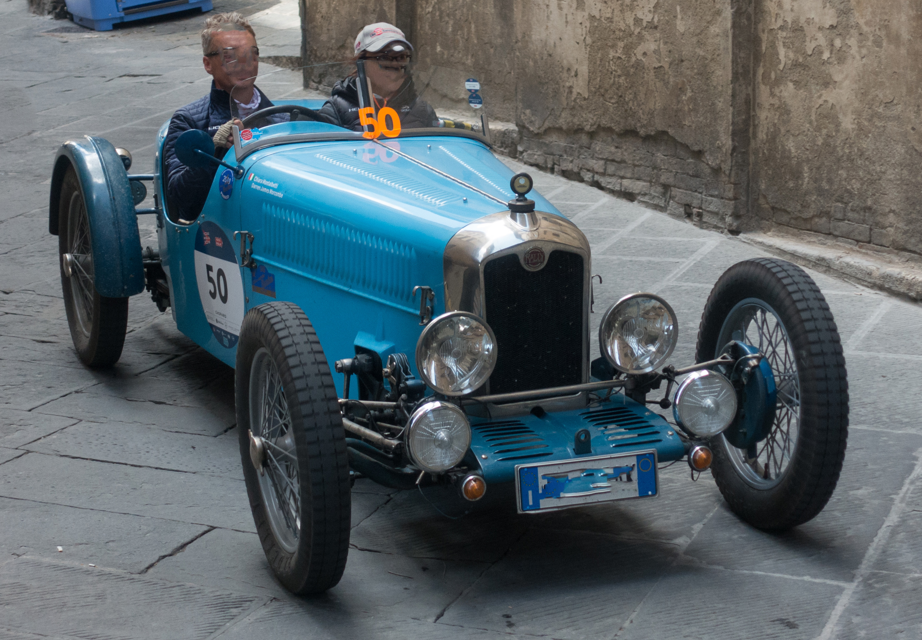 Rally Gran Sport (1928) at Mille Miglia 2019 in Siena